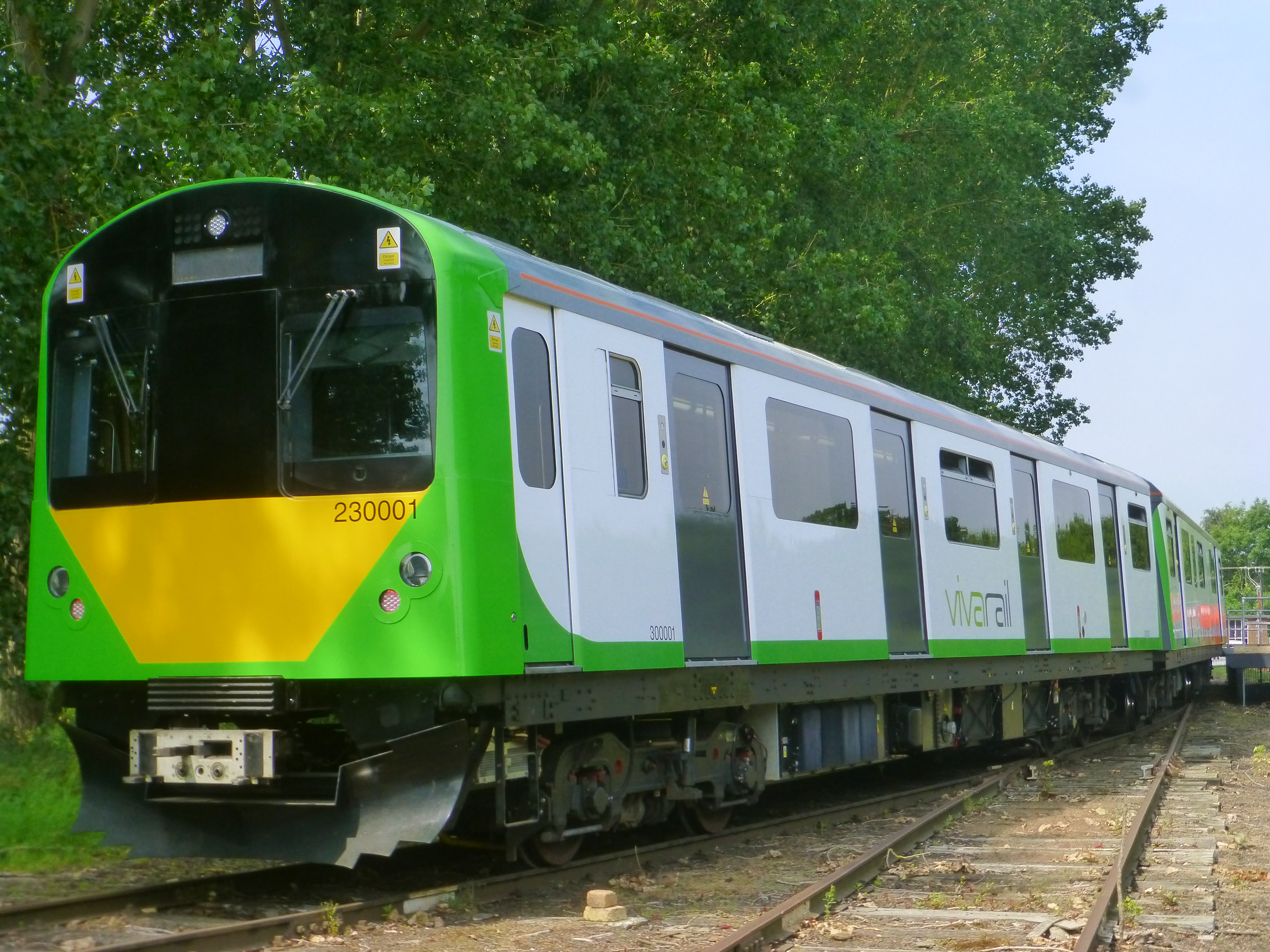 The prototype Class 230 Vivarail D-Train calls at a temporary platform at Long Marston during Rail Live 2017.